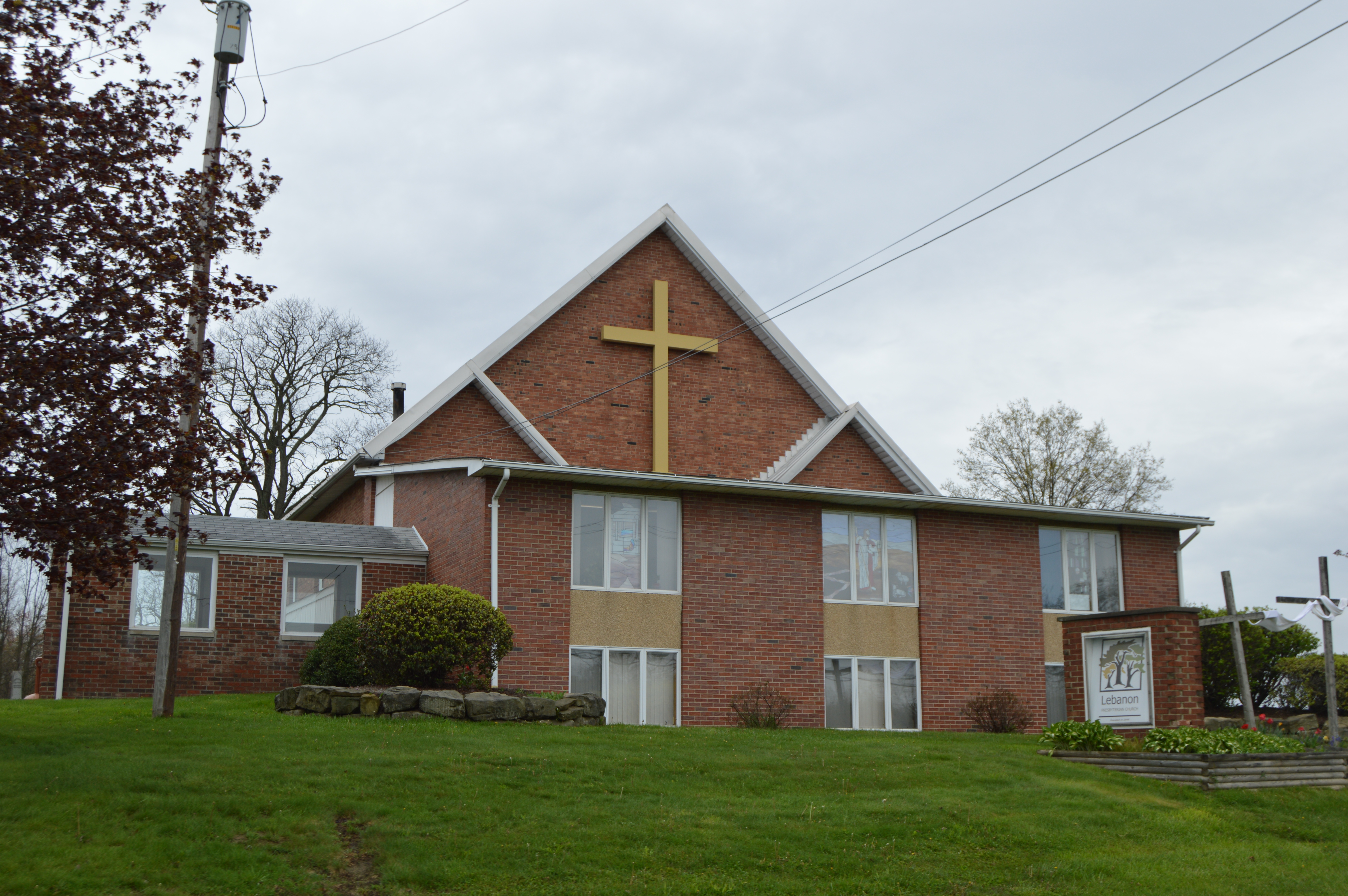 Front of Lebanon Presbyterian Church, located on Pennsylvania Route 318 just west of Greenfield in Lackawannock Township, Mercer County, Pennsylvania, United States.